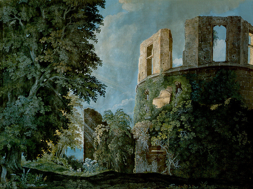 historic views of Heidelberg, Germany